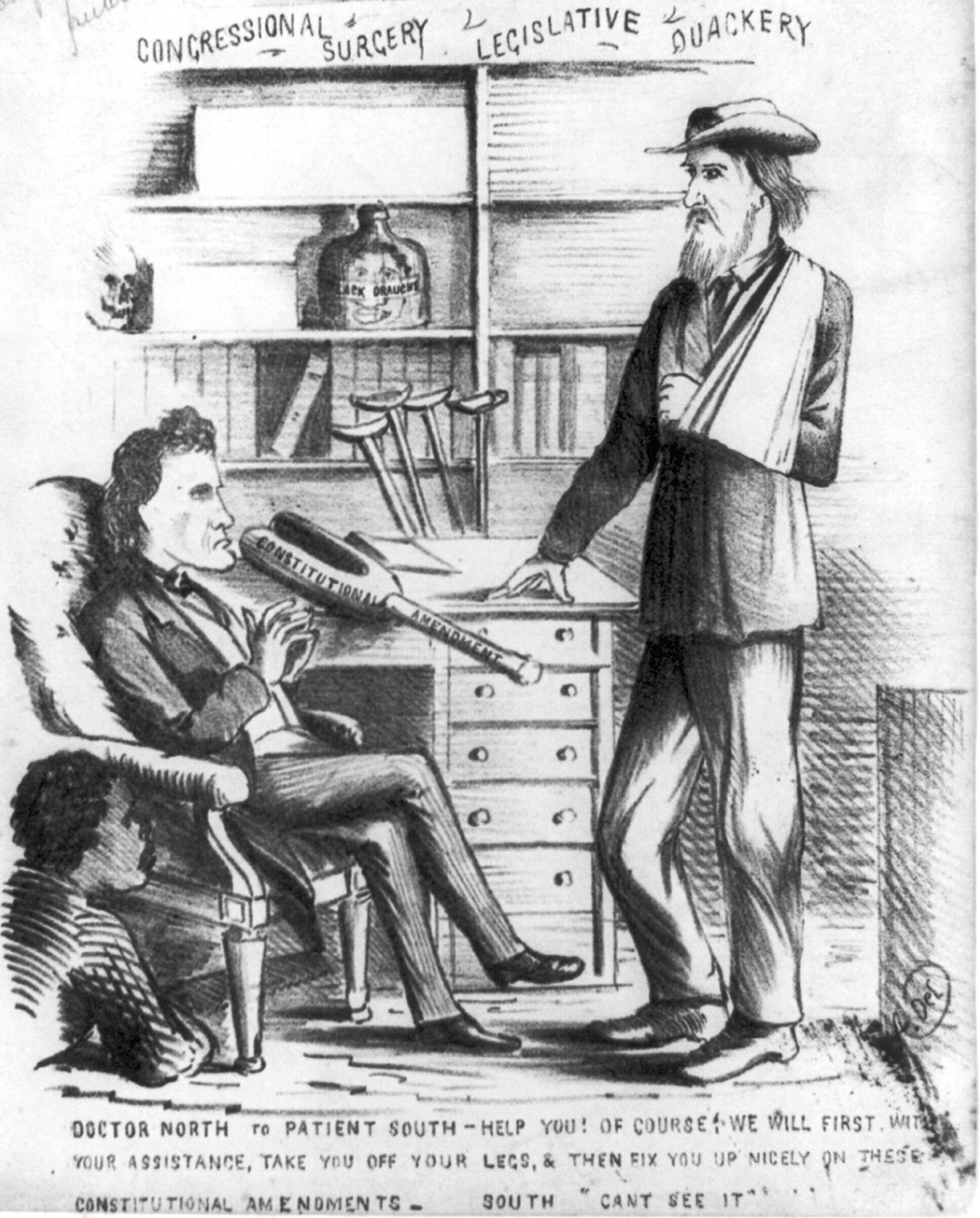 Political cartoon. Thaddeus Stevens (seated) as "Dr. North" advises the South to have its legs amputated by means of a Constitutional Amendment